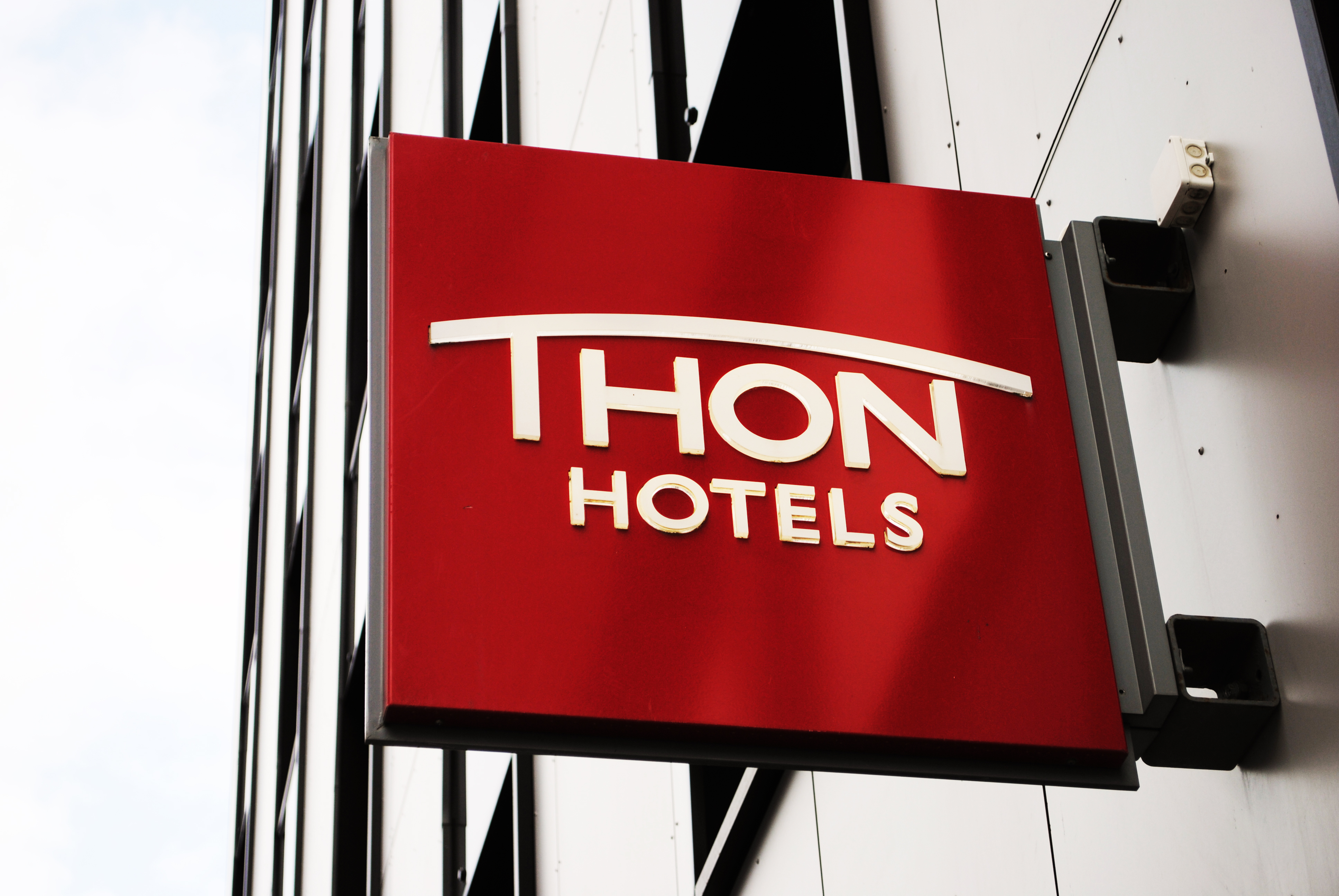 A sign of the Norwegian hotel chain Thon Hotels.